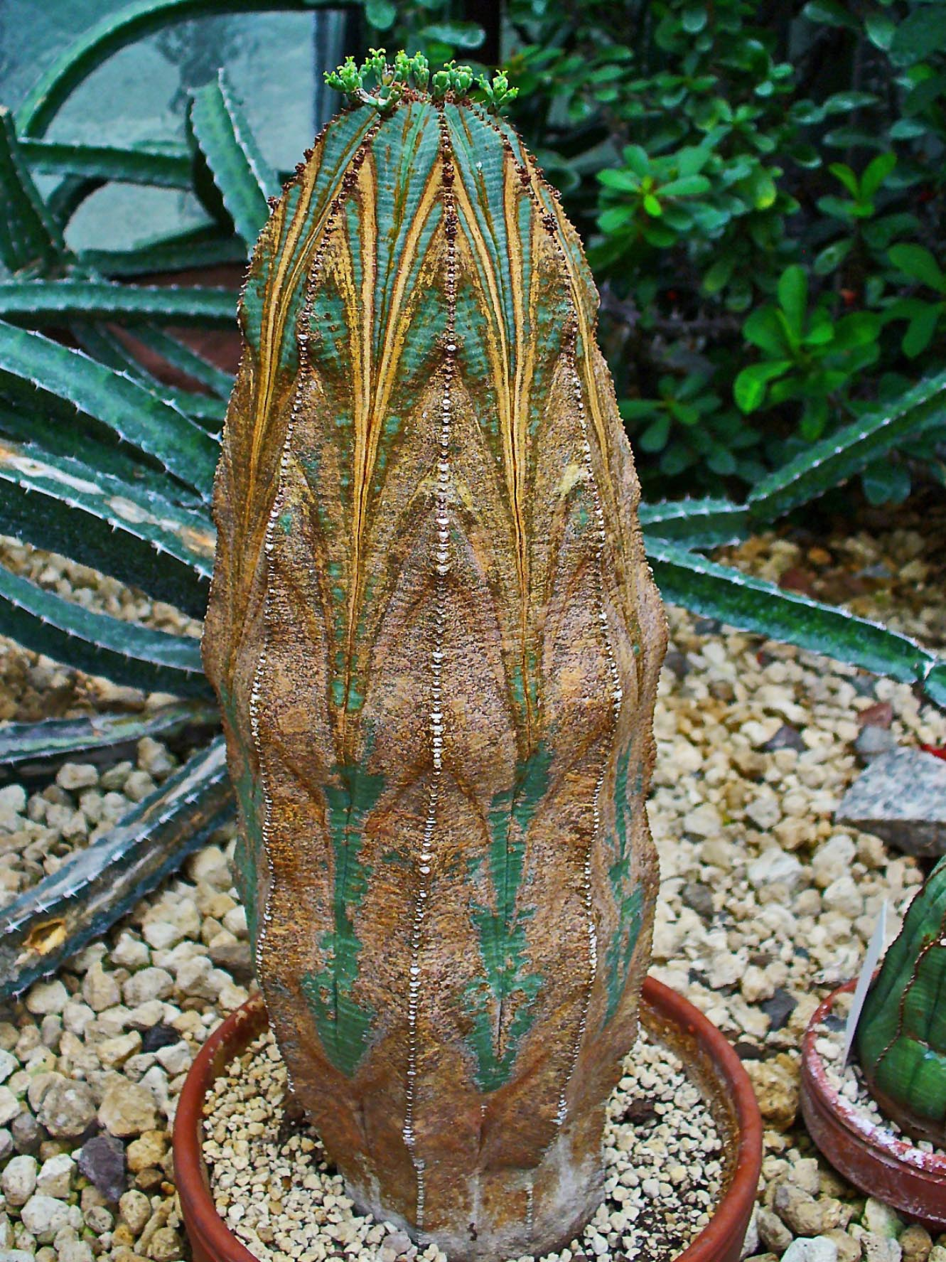 Euphorbia obesa, Euphorbiaceae, Living Baseball, habitus; Botanical Garden KIT, Karlsruhe, Germany.